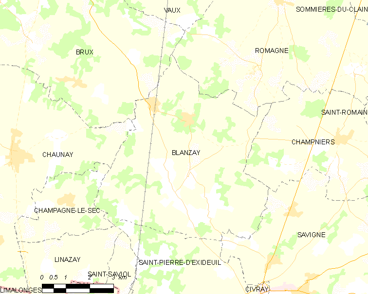 Map of French municipality Blanzay